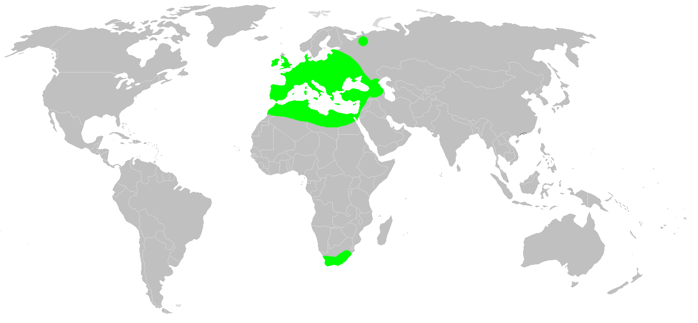 Known world distribution of Tegenaria parietina (Agelenidae); data from British Arachnological Society, 2006